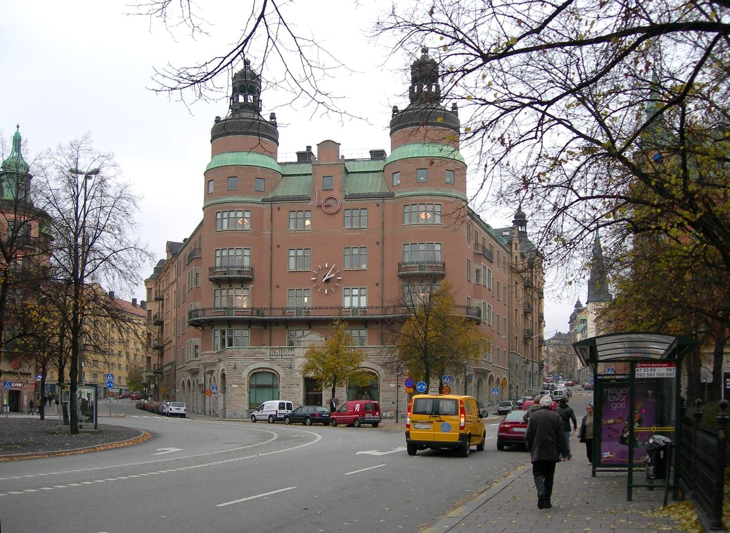 Norrabantorget in Stockholm Photo by Bronks November 2005.